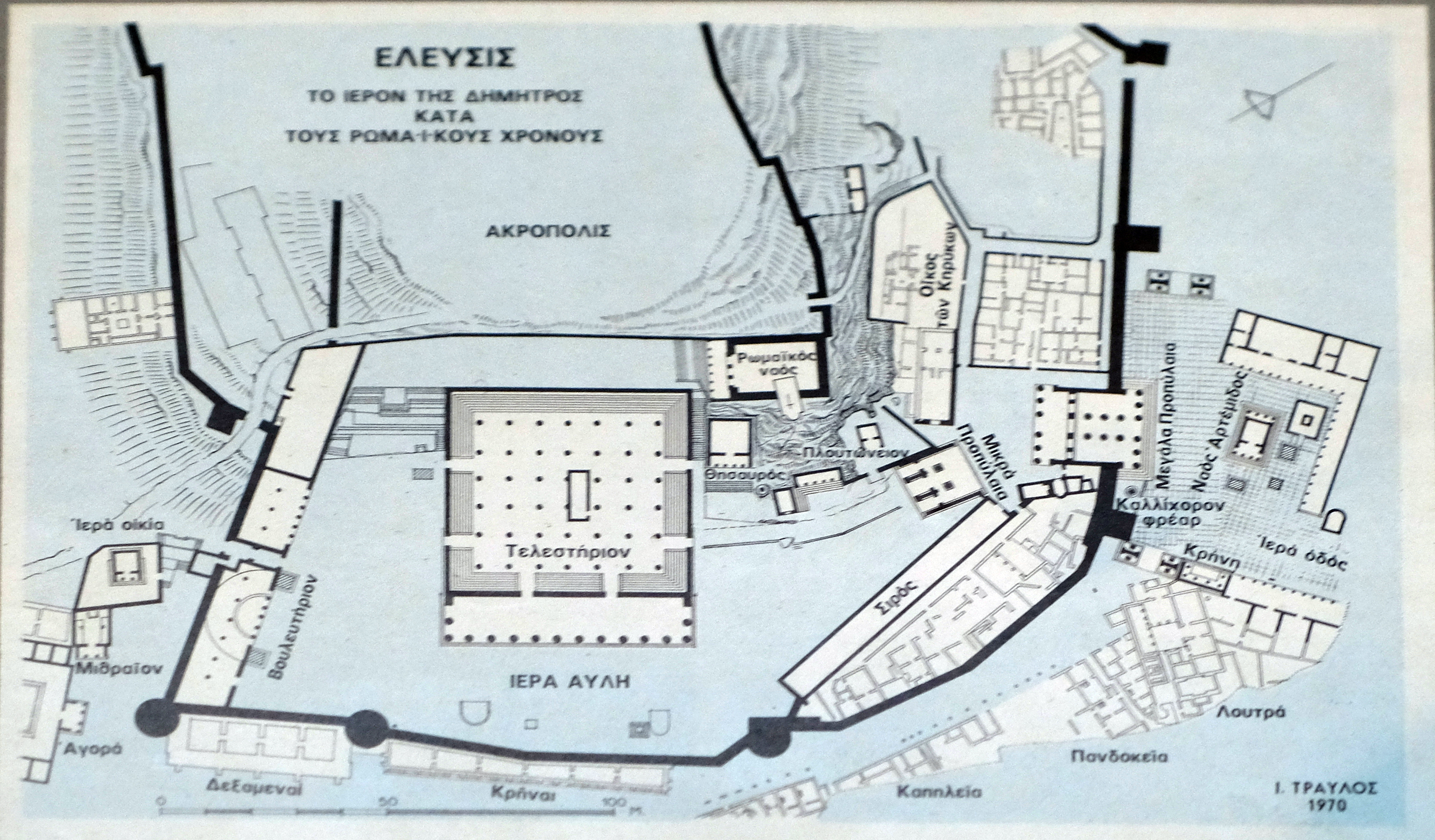 Map of Eleusis